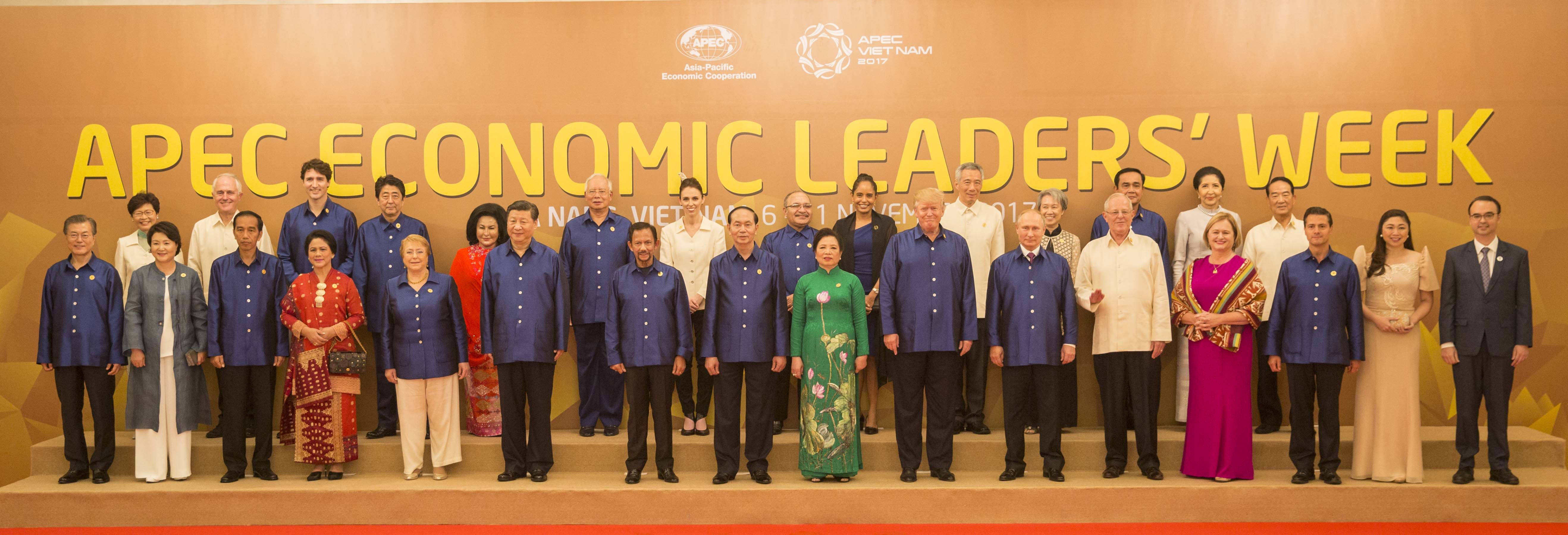 Delegates of the APEC Economic Leaders' Week.